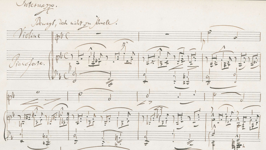 F-A-E sonata, manuscript of the second movement (fragment)